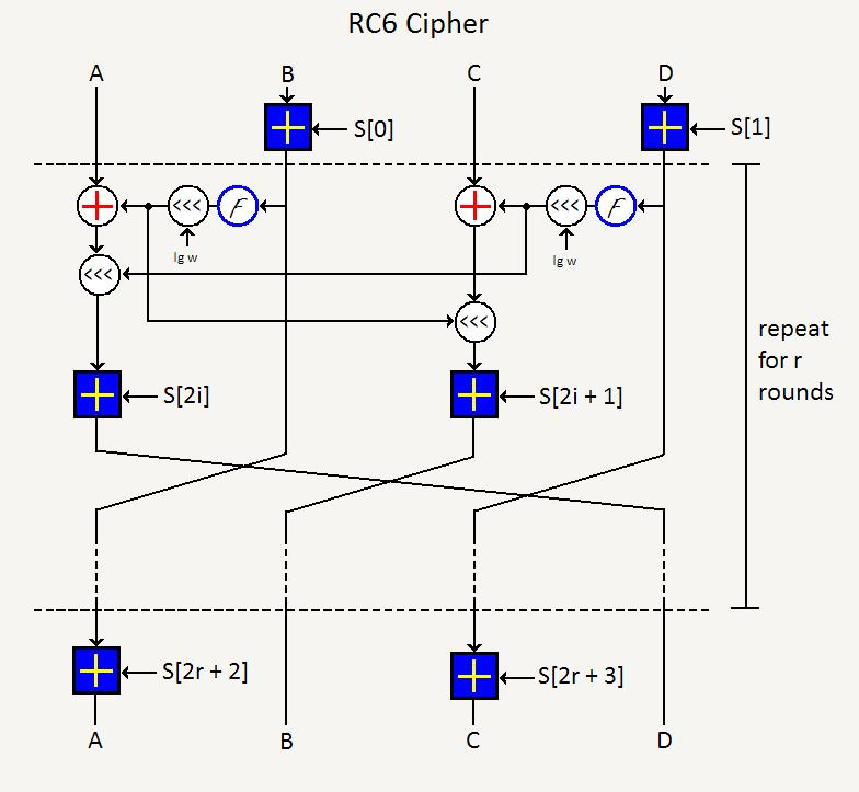 RC6 was one of 5 AES (Advance Encryption Standard) finalists. This image demonstrates the function of this algorithm with the syntaxes used by the authors of the algorithm.